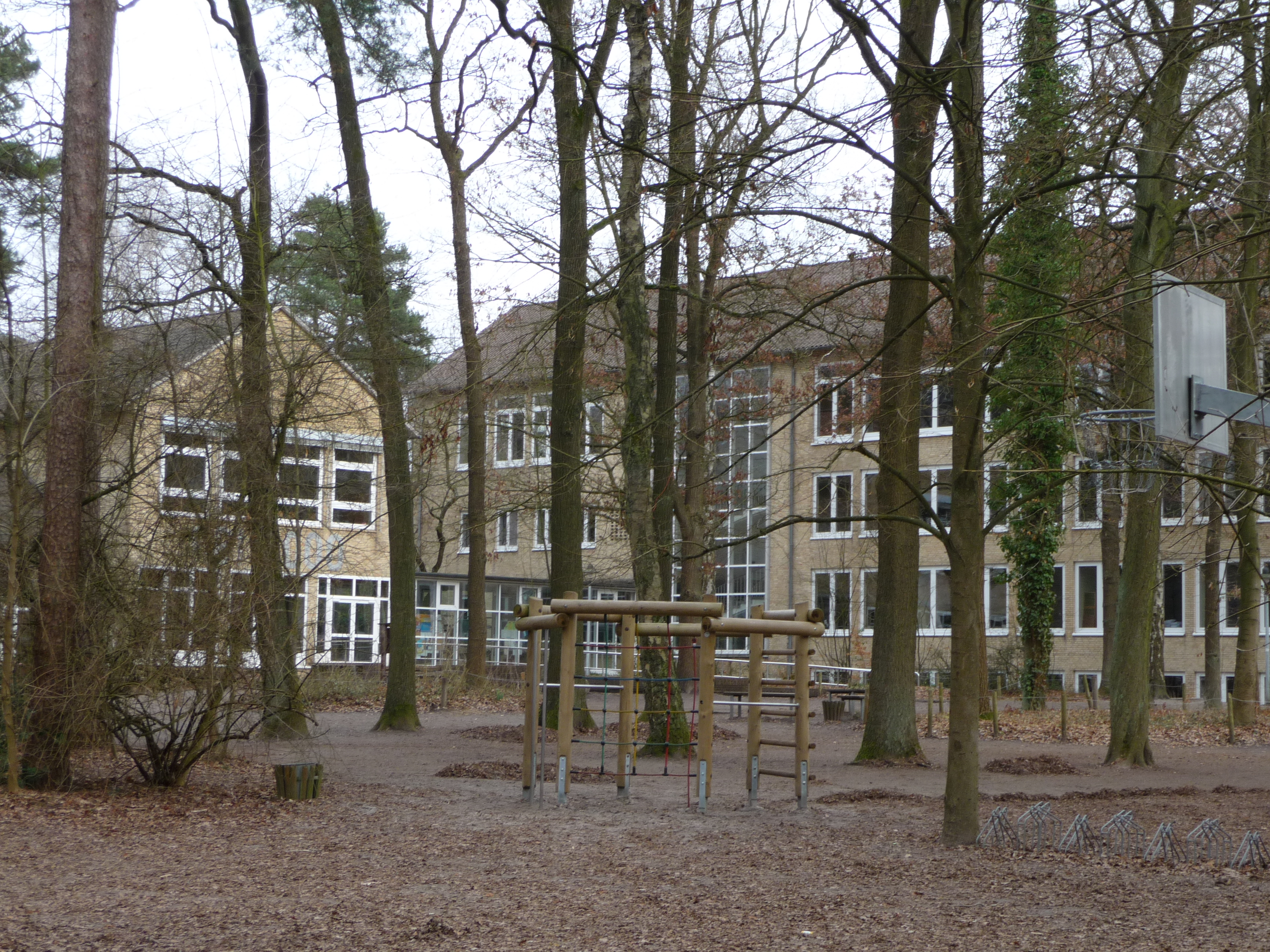 Secondary school Soltau, schoolyard